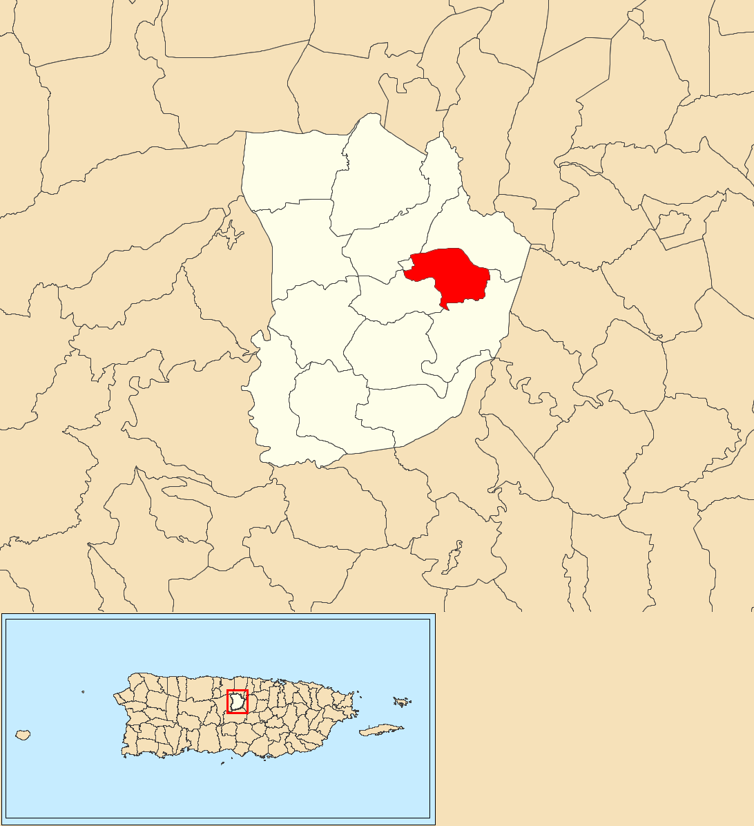 Monte Llano, Morovis, Puerto Rico locator map